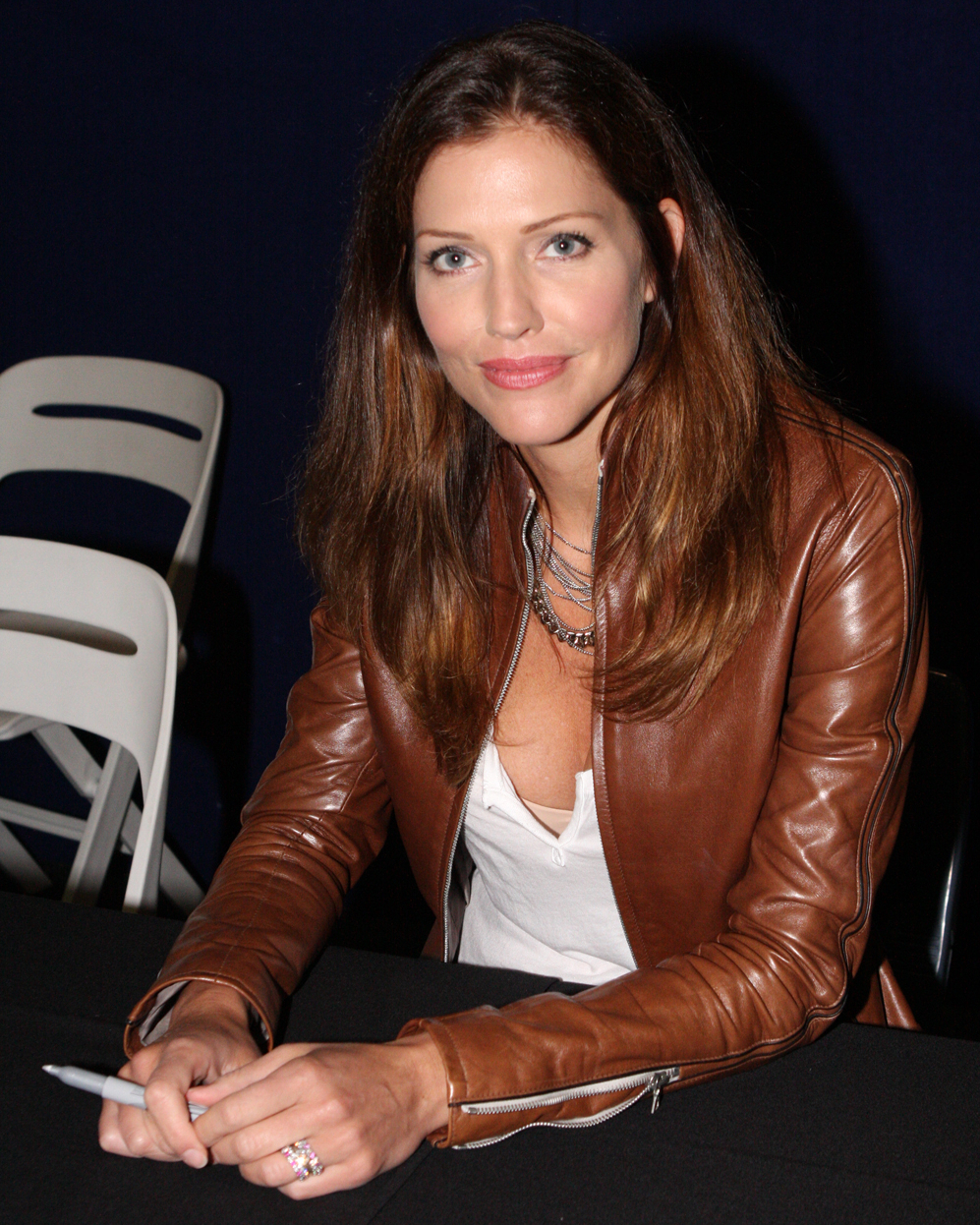 Tricia Helfer at the Supernova Pop Culture Expo Hits Sydney, Australia 2012.